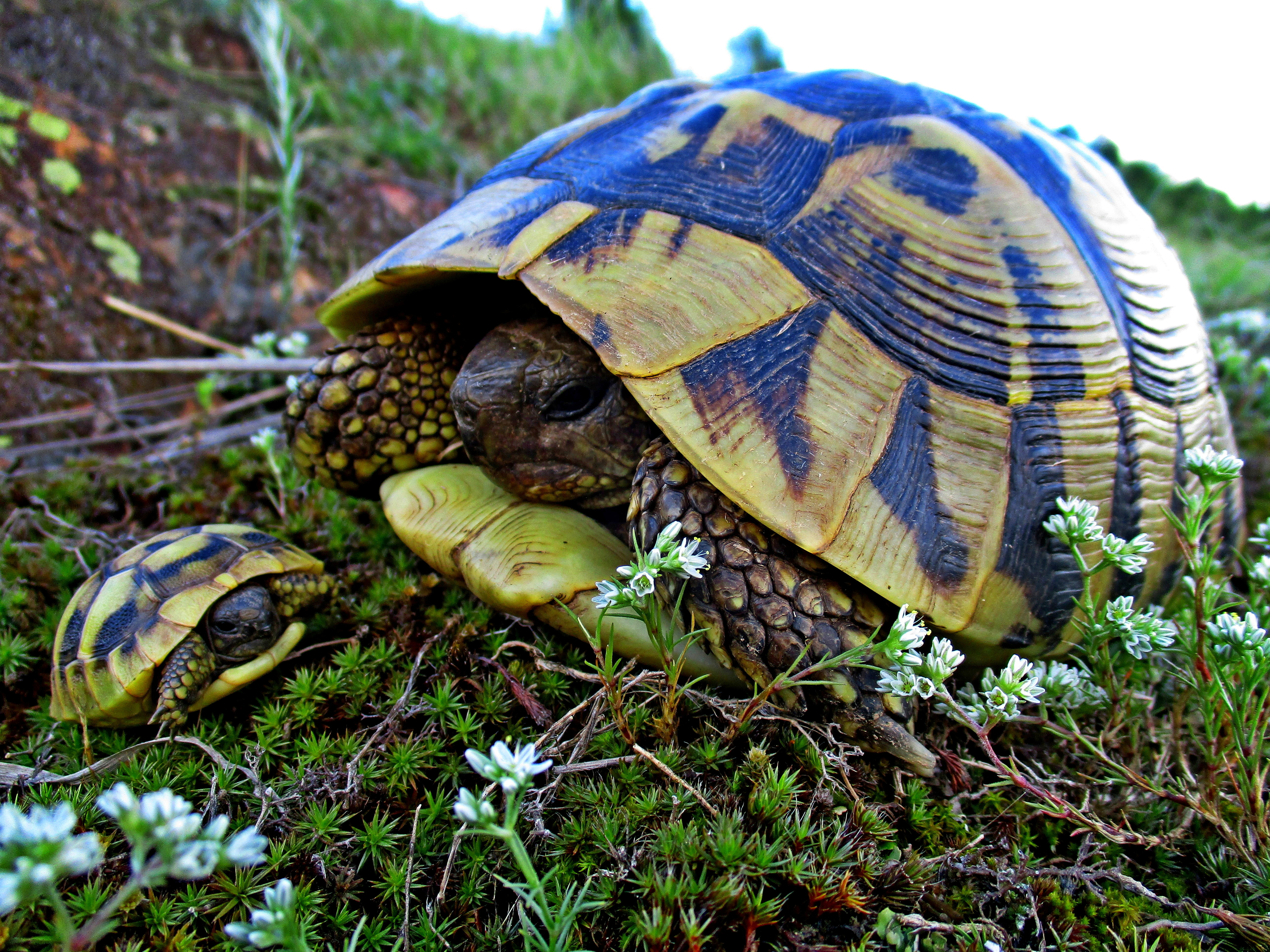 Hermann's tortoise (Testudo hermanni) in School forest nature reserve, Bulgaria. These 2 turtles I found in Bulgaria and it's amazing how they climbed the hill.